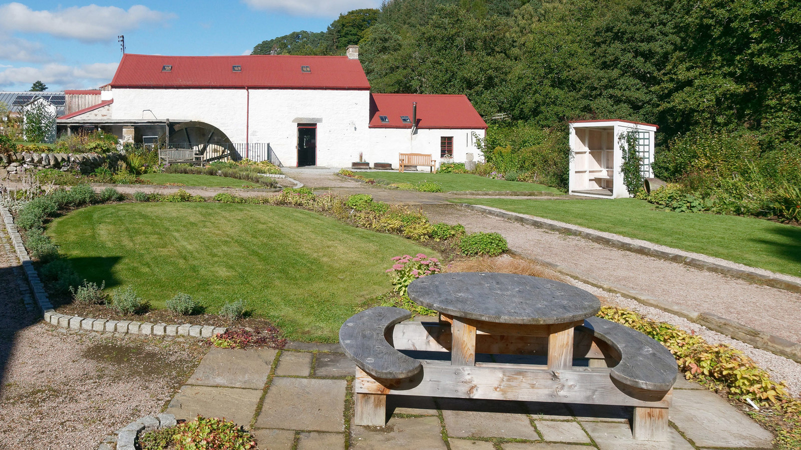 Open space around the buildings of Knockando Woollen Mill